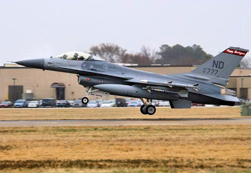 USAF F-16A ADF #81-0777 from the 178th FS piloted by Maj. Michael DePree takes off on a practice air defense scramble mission from Langley AFB, the same location from which F-16s were launched during the attacks of September 11th, 2001. Today's practice scramble brought the North Dakota Air National Guard past 70,000 hours of accident-free F-16 fighter operations. The aircraft was retired to AMARC as FG0518 Dec 5, 2006. Reported Mar 2004 to be destined for Jordanian AF, however was still on AMARC inventory Jan 15, 2008 [Photo by SMSgt David Lipp]